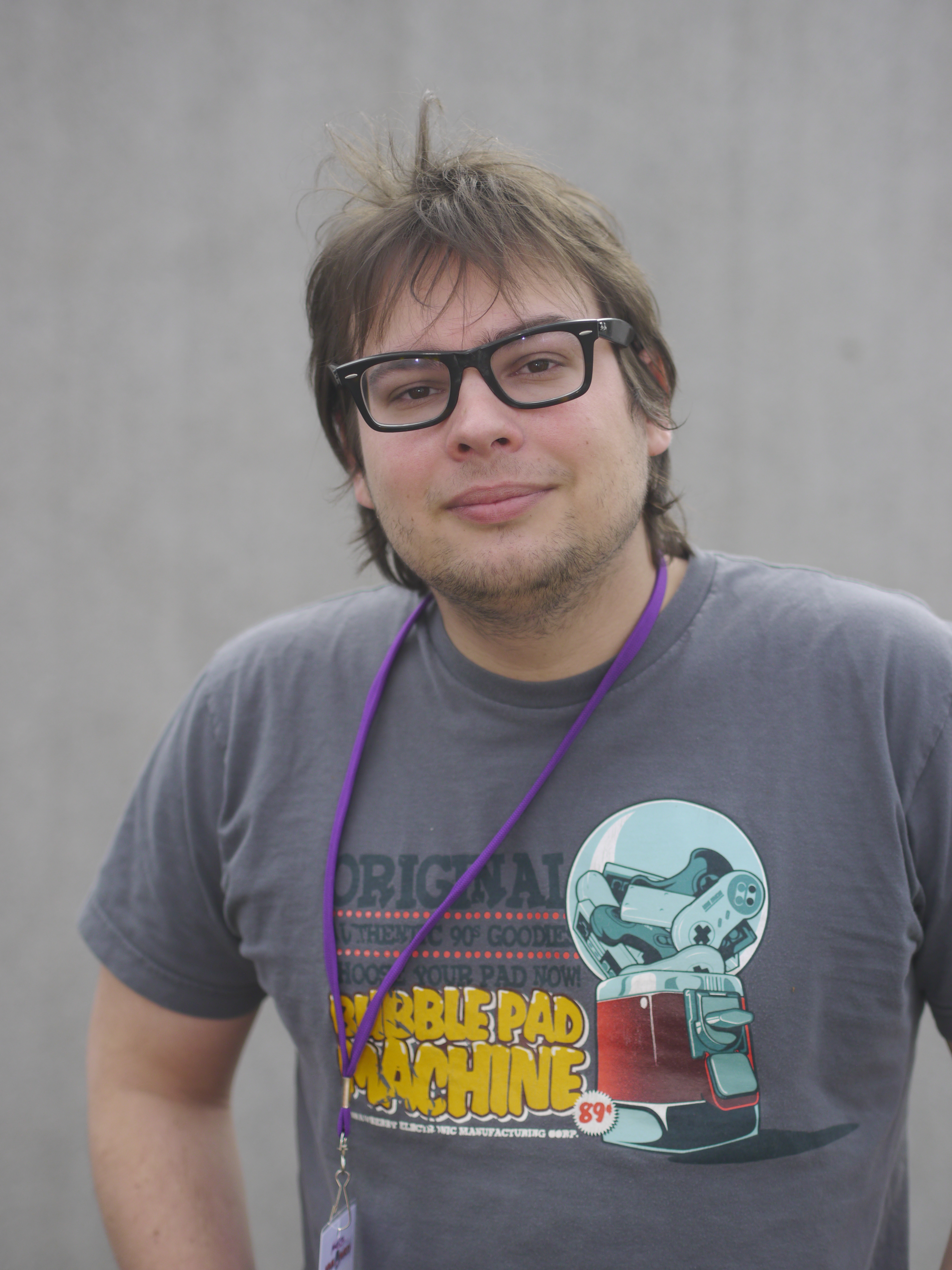 Japan Party festival official site